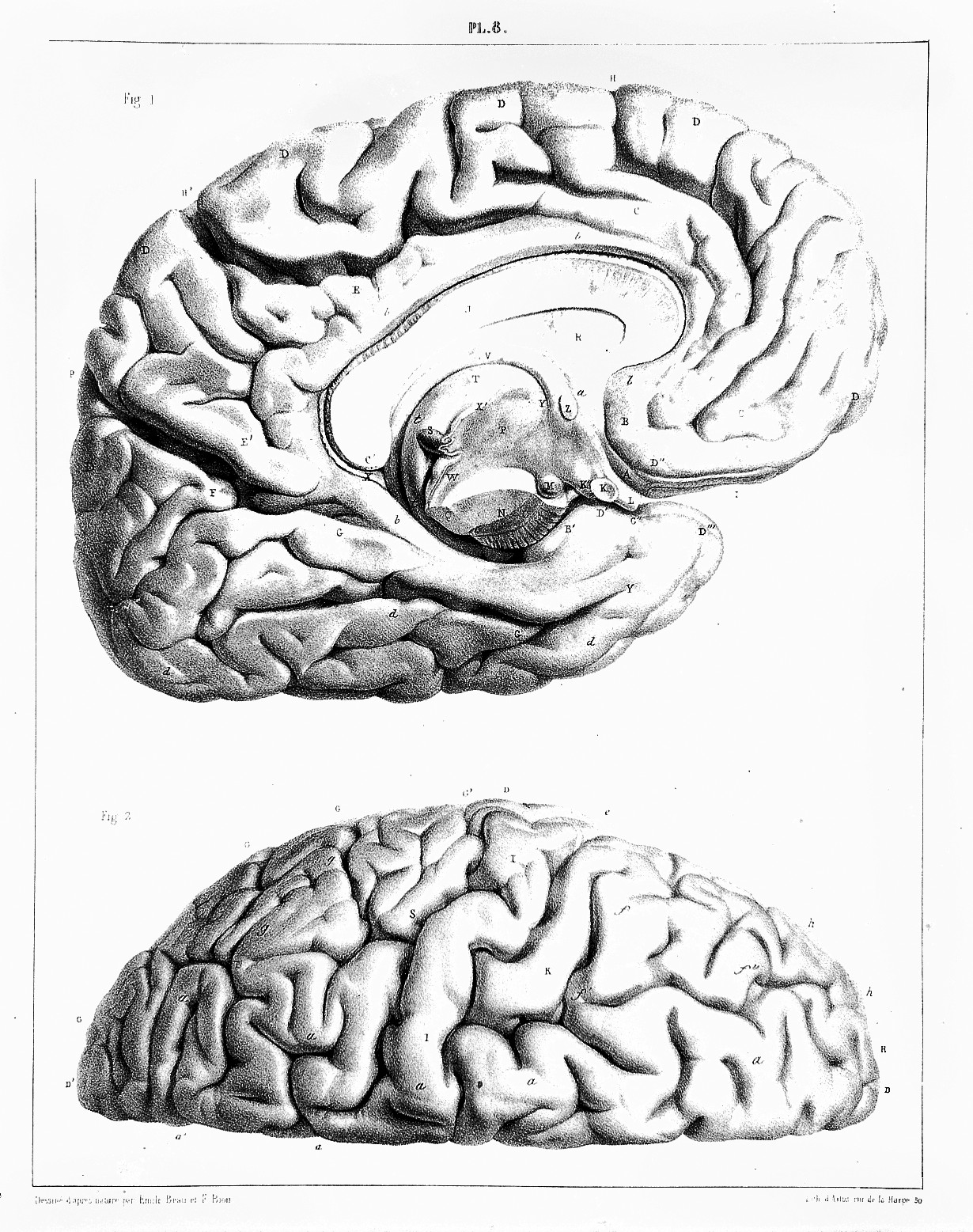 Left hemisphere of brain Rare Books Keywords: anatomy, brain; Achille Louis Foville